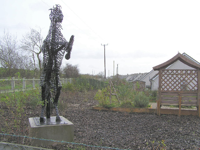 Travelling people housing site at Tattykeel. This statue of a horse up on its rear legs is positioned near the entrance to the site, a reminder to the travellers of their roots. The road runs parallel to the A5 between Doogary and Ranelly